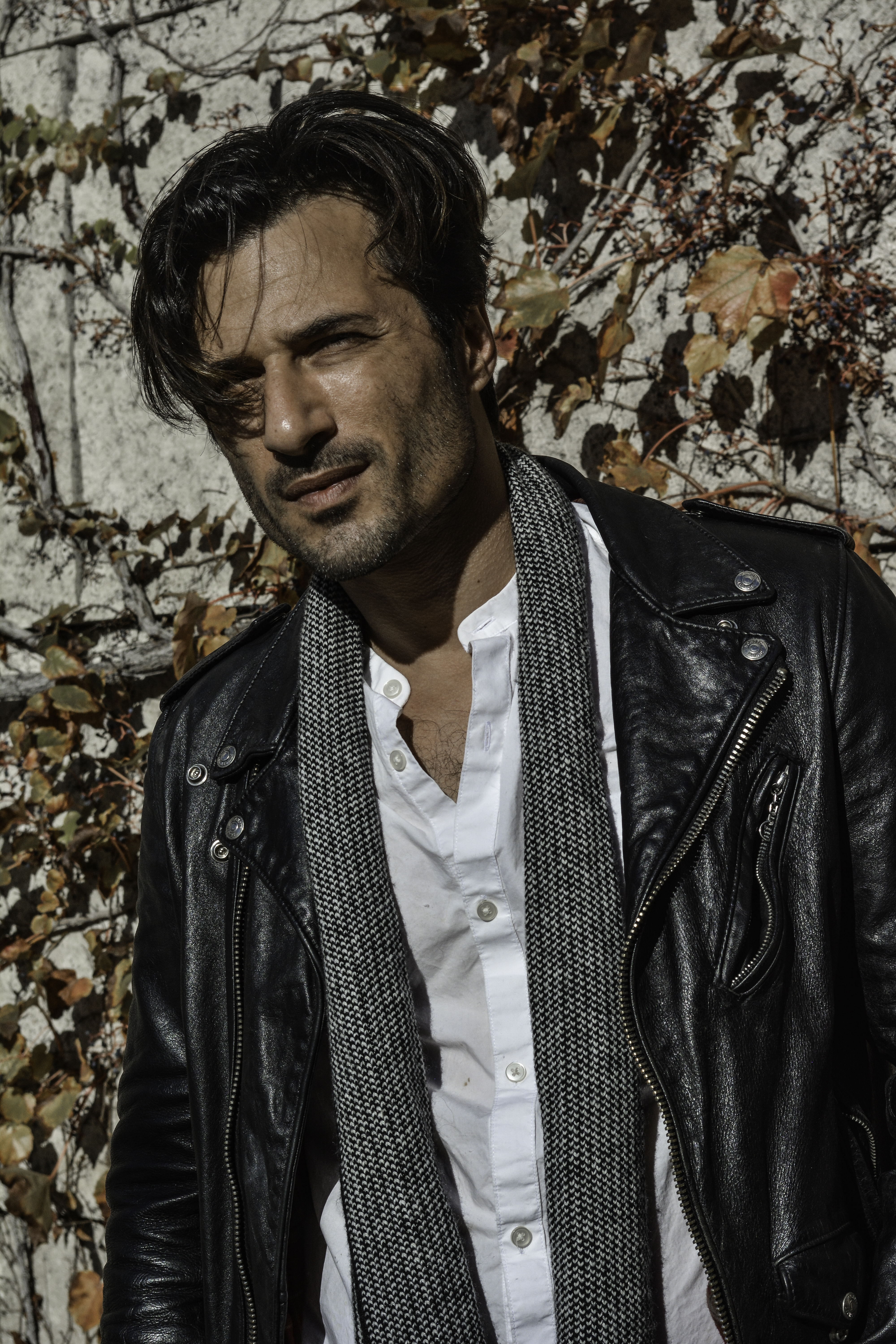 Shot by Jodi Kassowitz